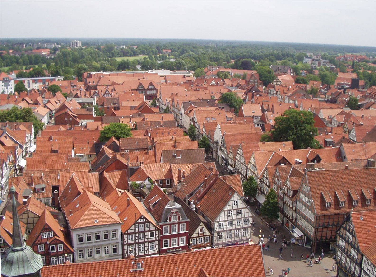 Rooftop view of Celle taken by me User:Pschemp